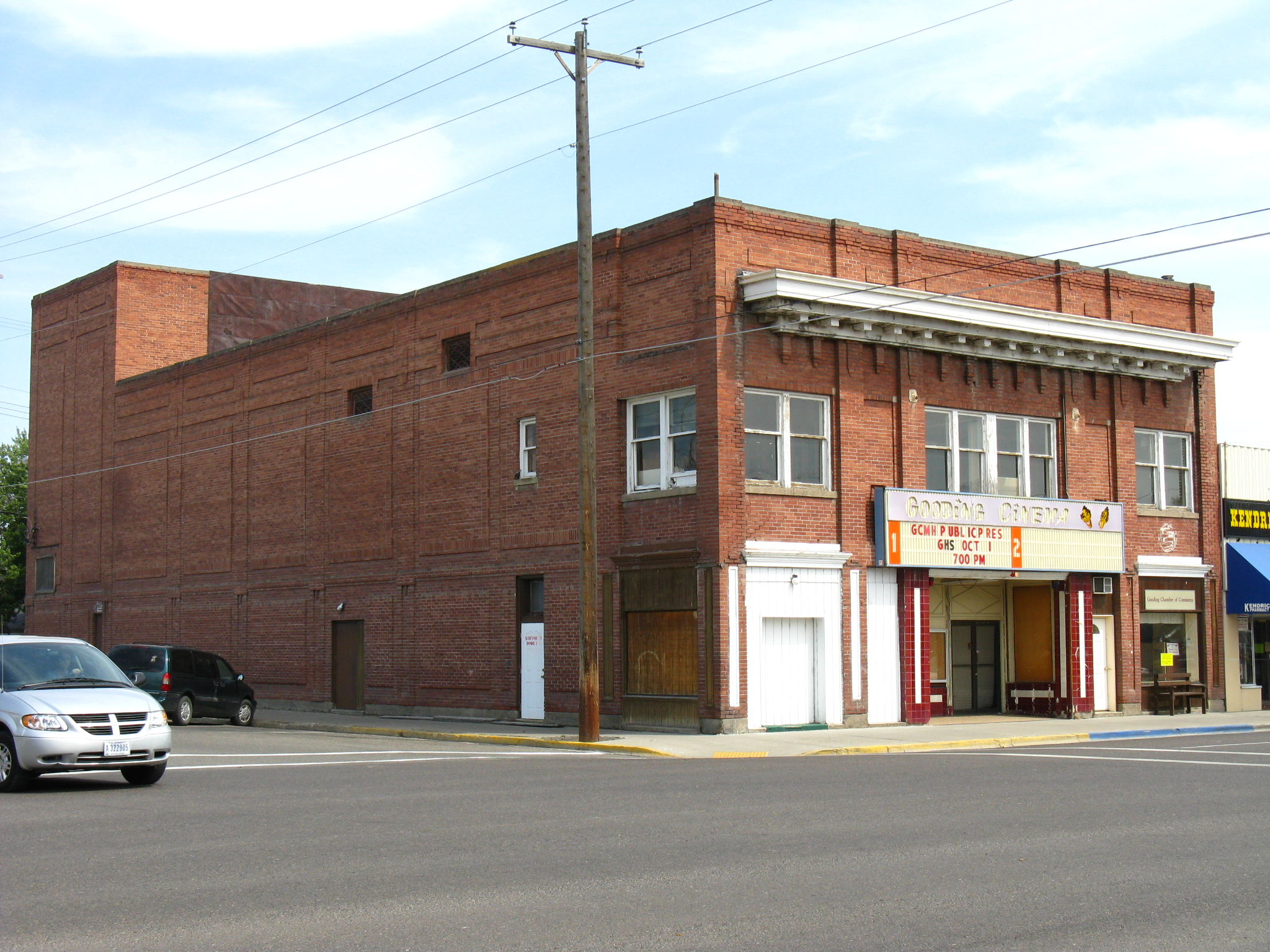 Schubert Theater, Gooding, Idaho. This building is listed on the National Register of Historic Places.